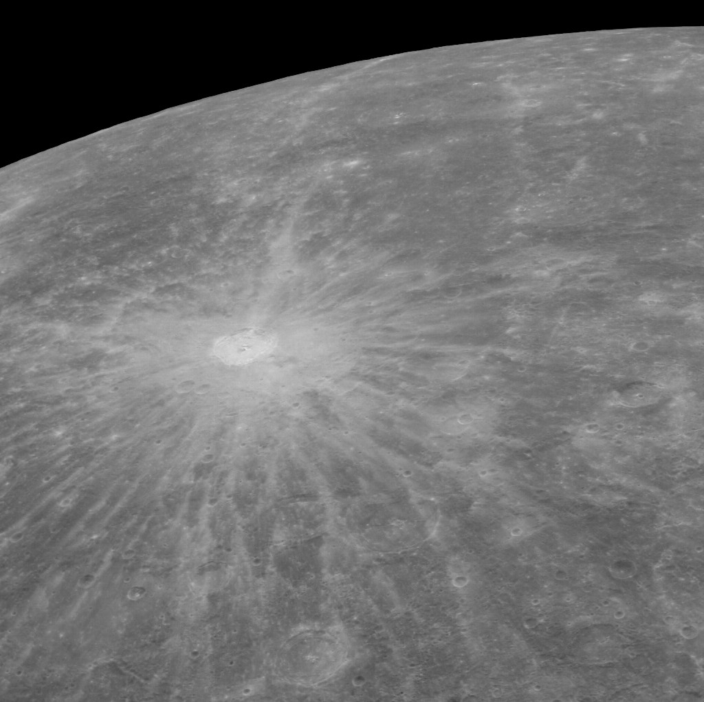 Oblique view of Kuiper crater and its ray system under high sun angle. MESSENGER Wide Angle Camera, rotated and cropped slightly. Emission Angle: 58.7 Incidence Angle: 18.2 Latitude: -13.2 Longitude: 330.8 Phase Angle: 74.4